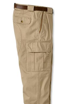 Mike Obradovich's pants